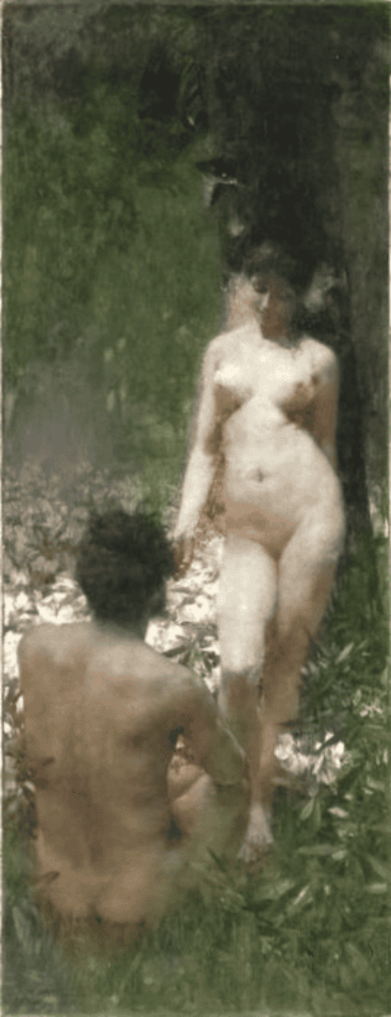 Adam and Eve